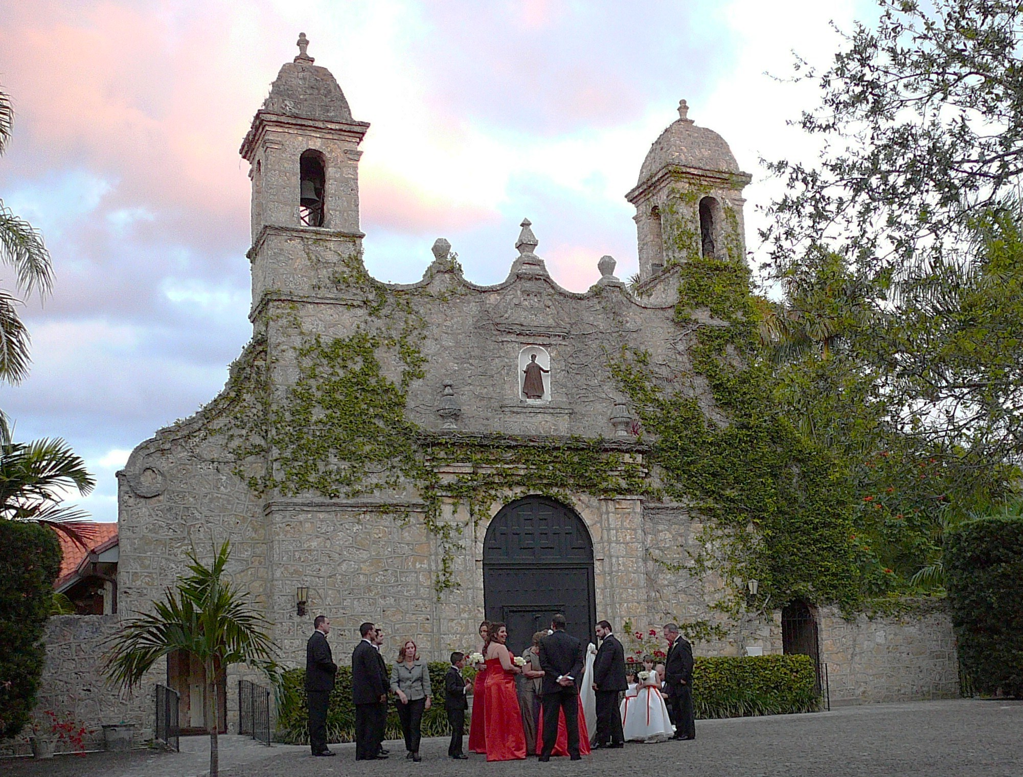 Digital photo taken by Marc Averette. Plymouth Congregational Church in Miami's Coconut Grove, Florida. 2/7/2009